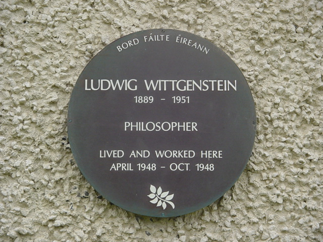 The photo shows a plaque commemorating the stay Ludwig Wittgenstein on Killary Harbour. Placed on the wall of the house where he lived then.